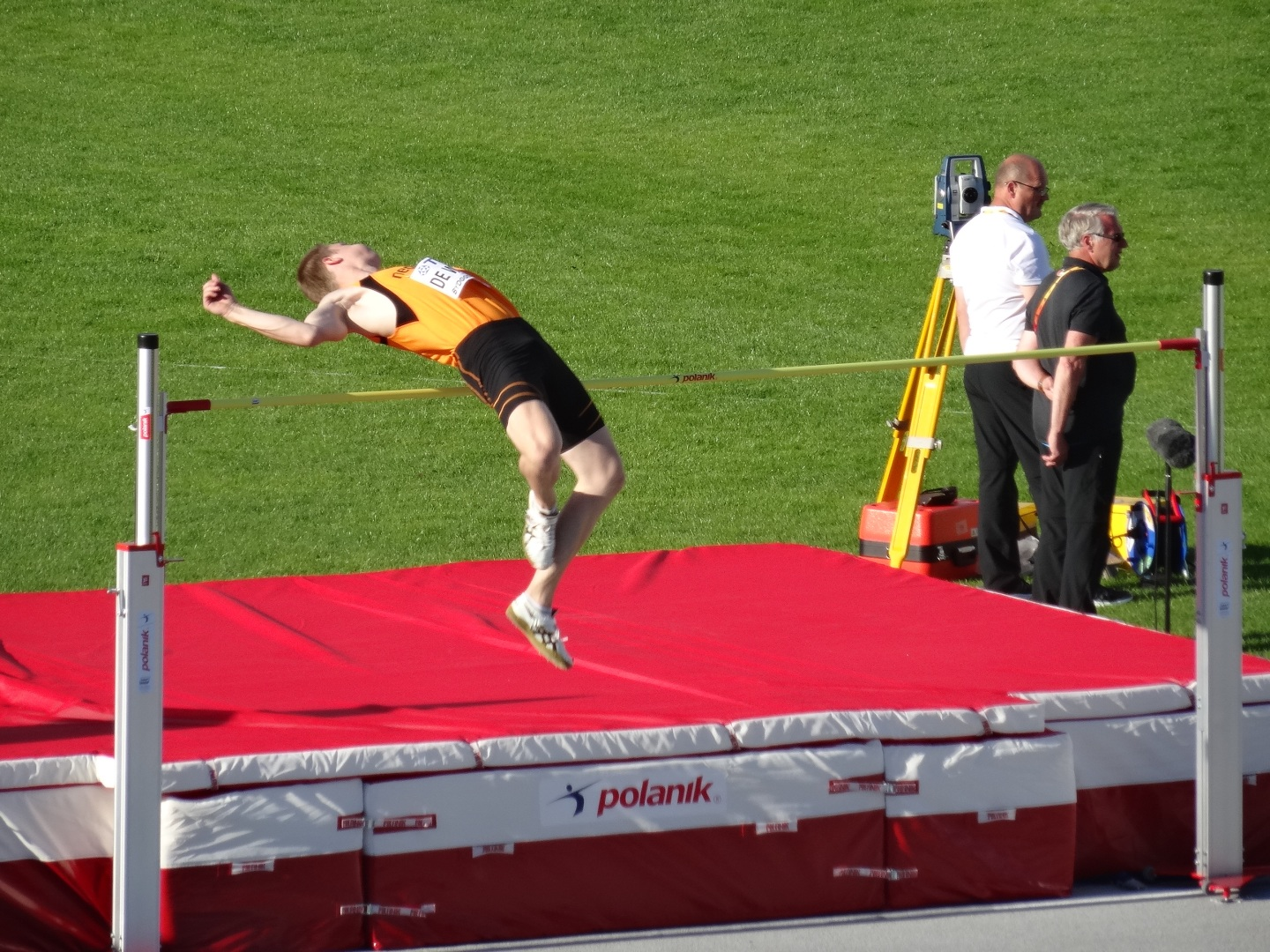 2016 IAAF World U20 Championships in Bydgoszcz, high jump men final